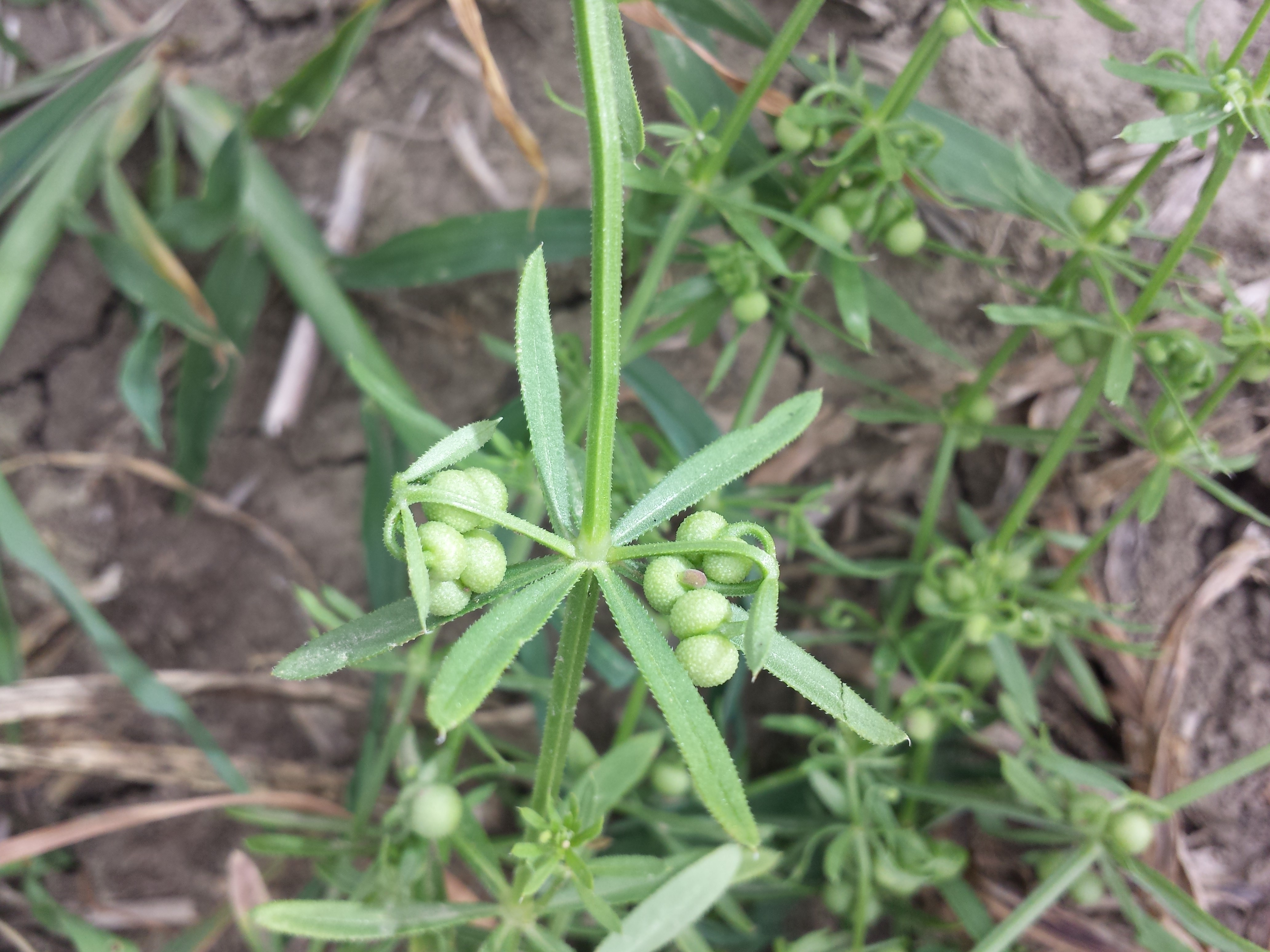 Infructescence Taxonym: Galium tricornutum ss Fischer et al. EfÖLS 2008 ISBN 978-3-85474-187-9 Location: Dernberg, Nappersdorf-Kammersdorf, district Hollabrunn, Lower Austria - ca. 270 m ü. A. Habitat: field